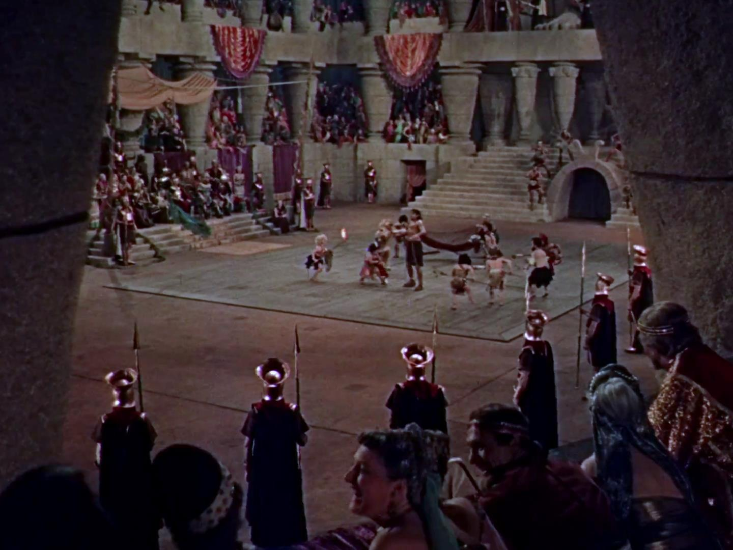 Screenshot of the temple of Dagon from the trailer for the film Samson and Delilah.